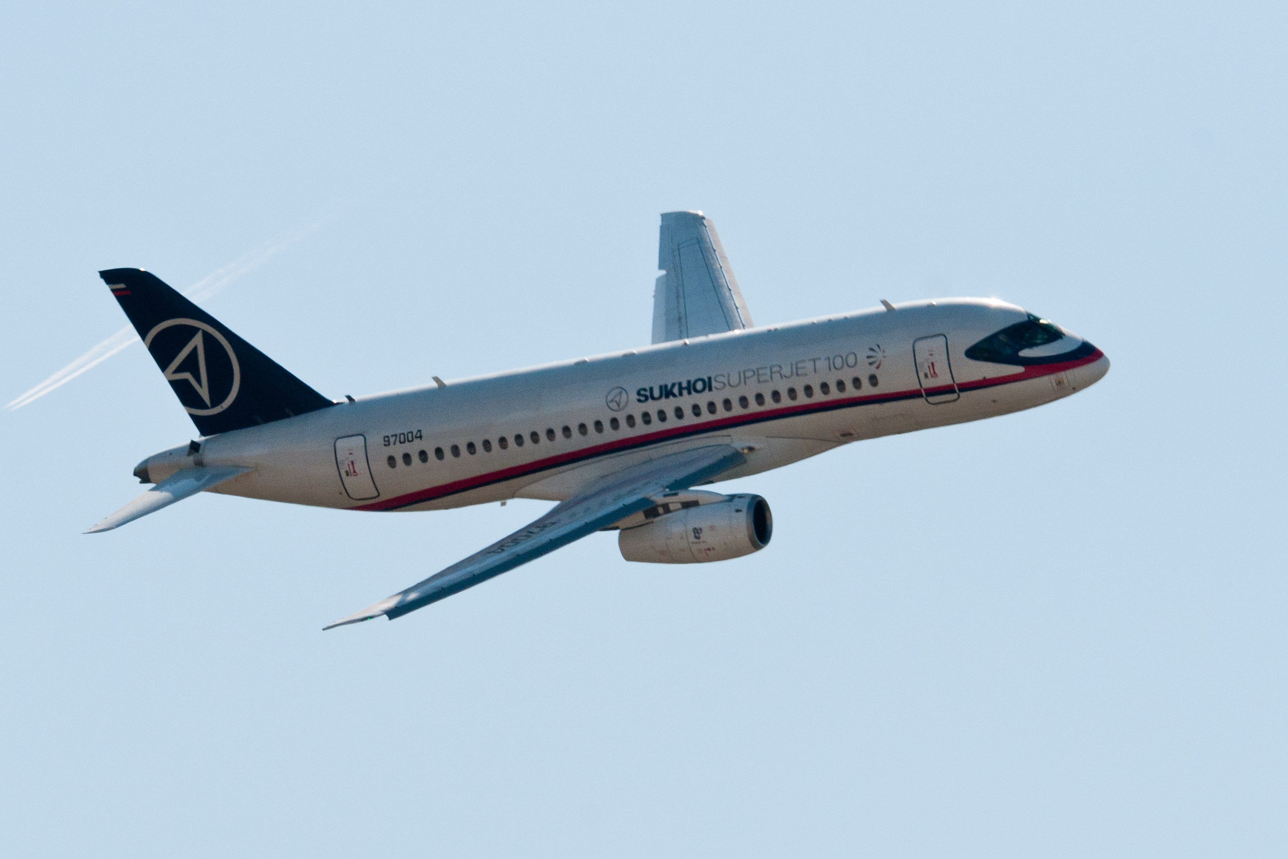 Sukhoi SuperJet 100 at MAKS-2011 airshow.